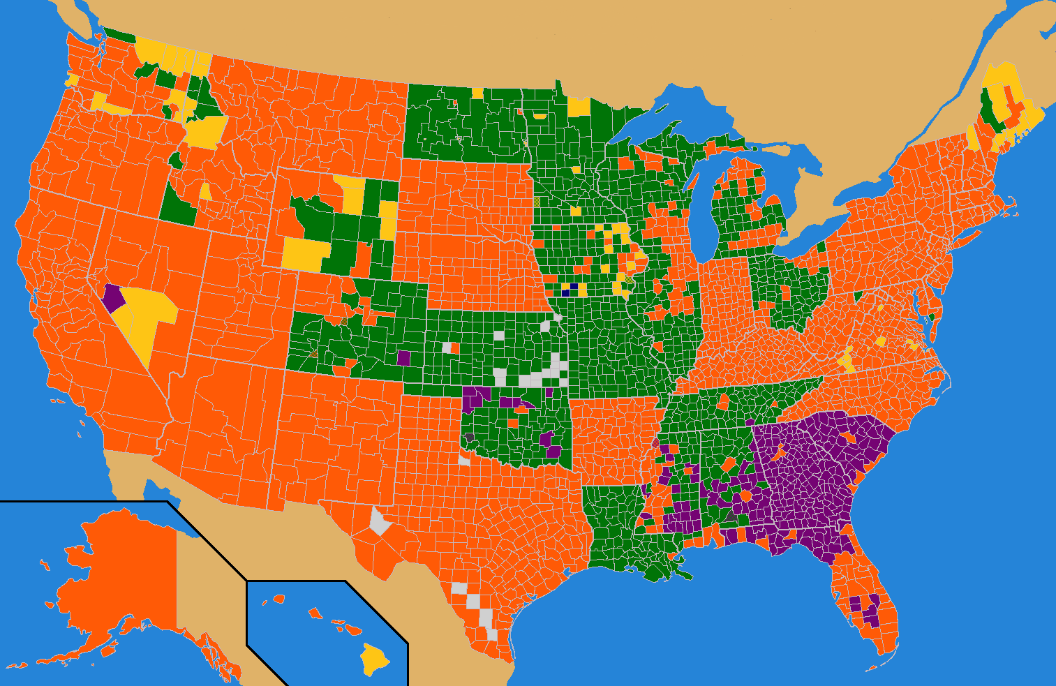 Map of the Republican Party (United States) presidential primaries, 2012 by county. Counties won by Gingrich Counties won by Paul Counties won by Perry Counties won by Romney Counties won by Santorum Counties with no recorded votes